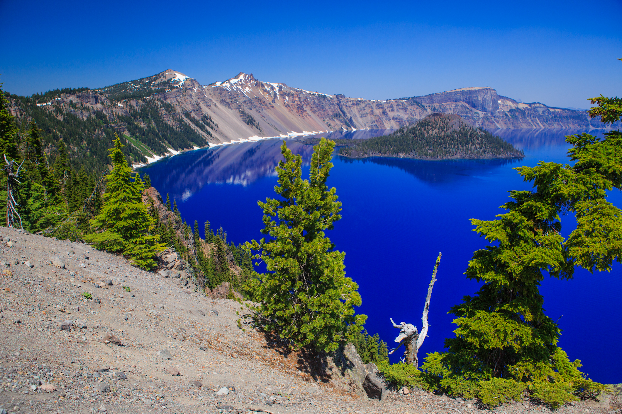 spectacular Crater Lake Nat. Park